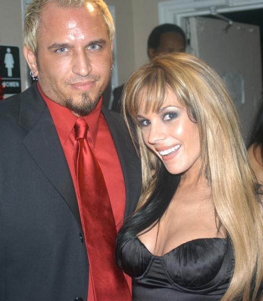 Barrett Blade, Kirsten Price at LA Direct Model's Party, Dec 19, 2005